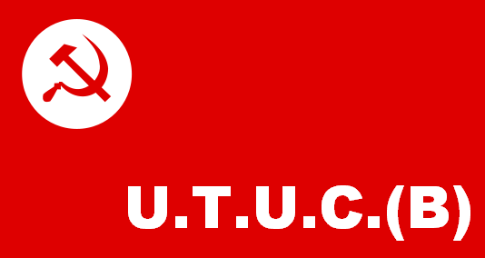 United Trade Union Congress (Bolshevik) banner. Proportions not necessarily exact.